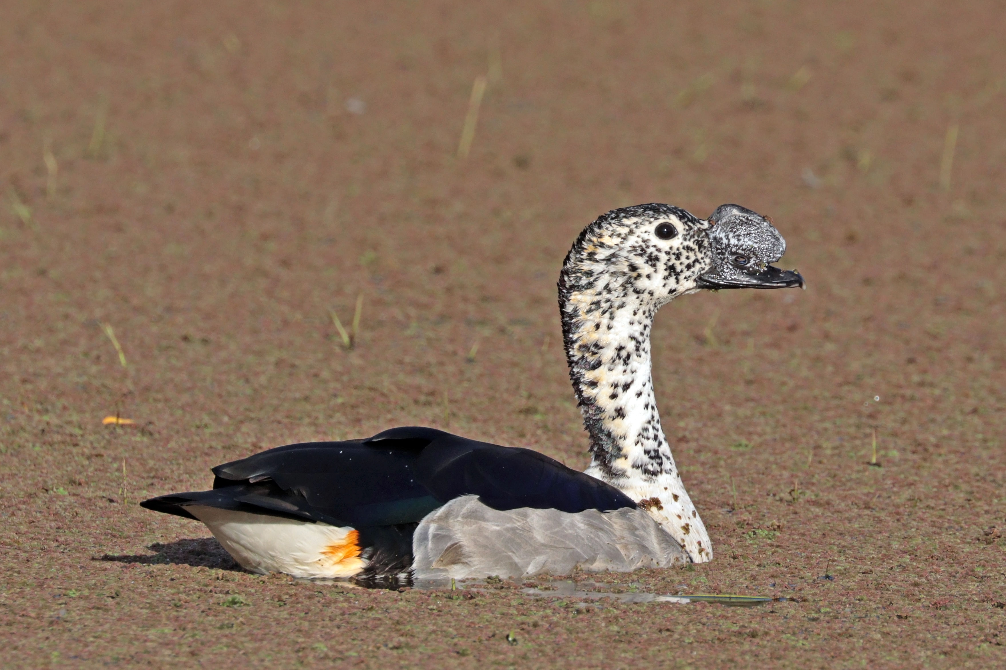 Knob-billed duck (Sarkidiornis melanotos) male, Lake Ziway, Ethiopia